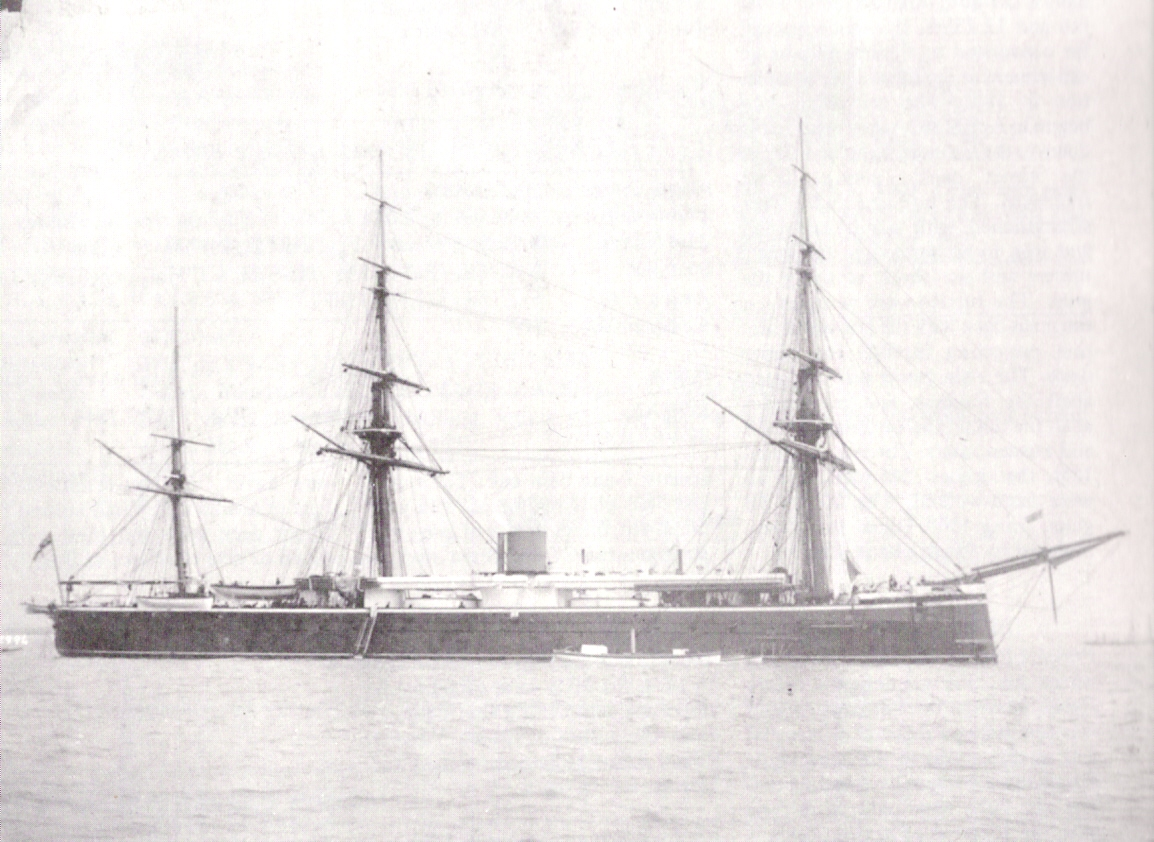 Photograph of British battleship HMS Monarch after her 1872 conversion to barque rig.